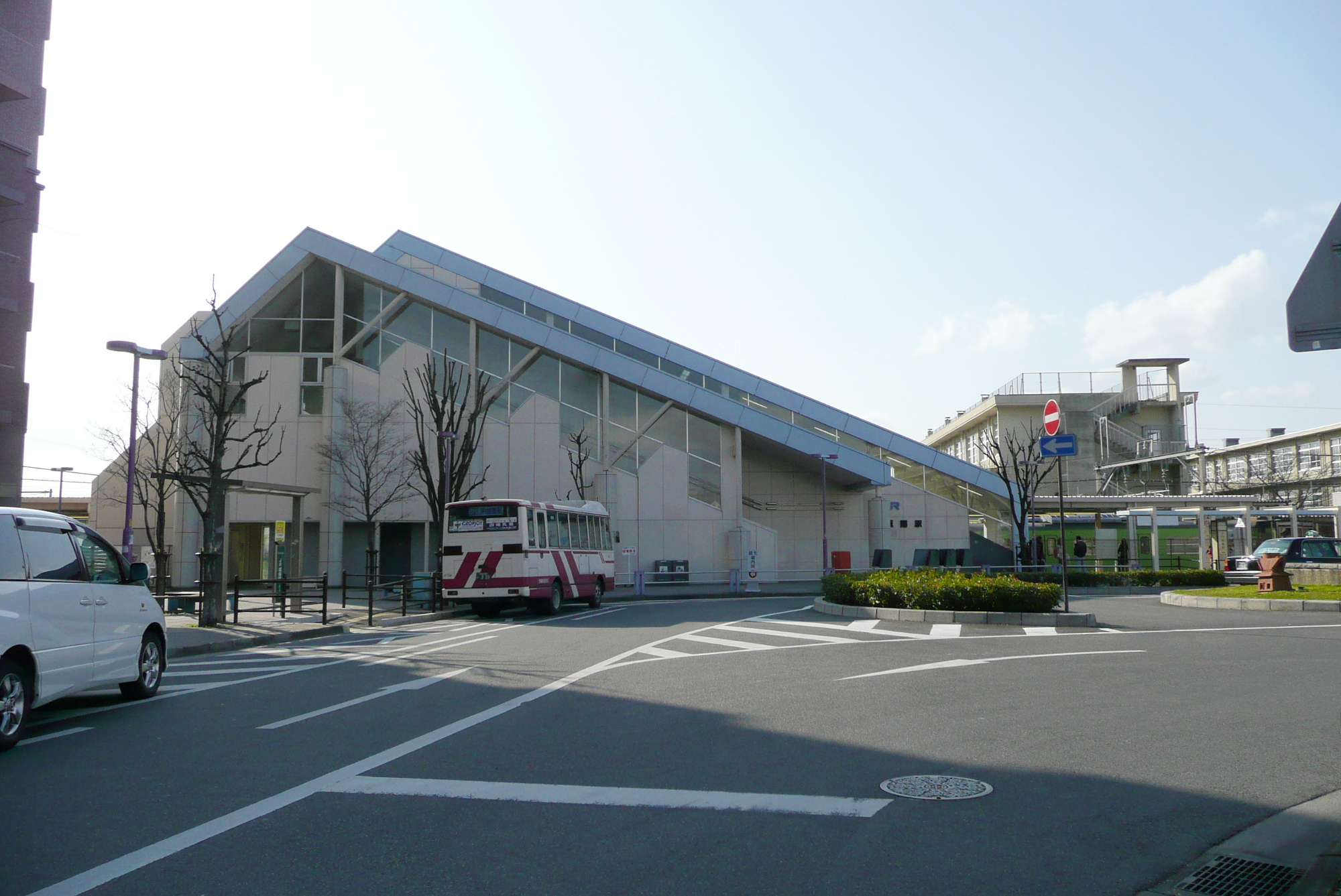 West Japan Railway, Nara Line, Jōyō Station east entrance.